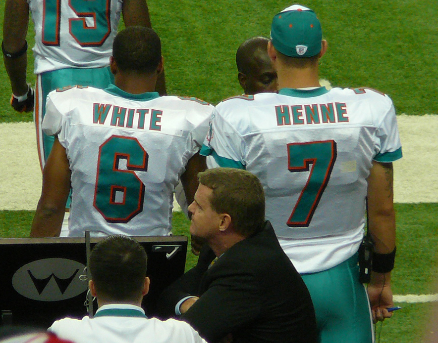 If used somewhere other than Wikipedia, Nelson, by name.